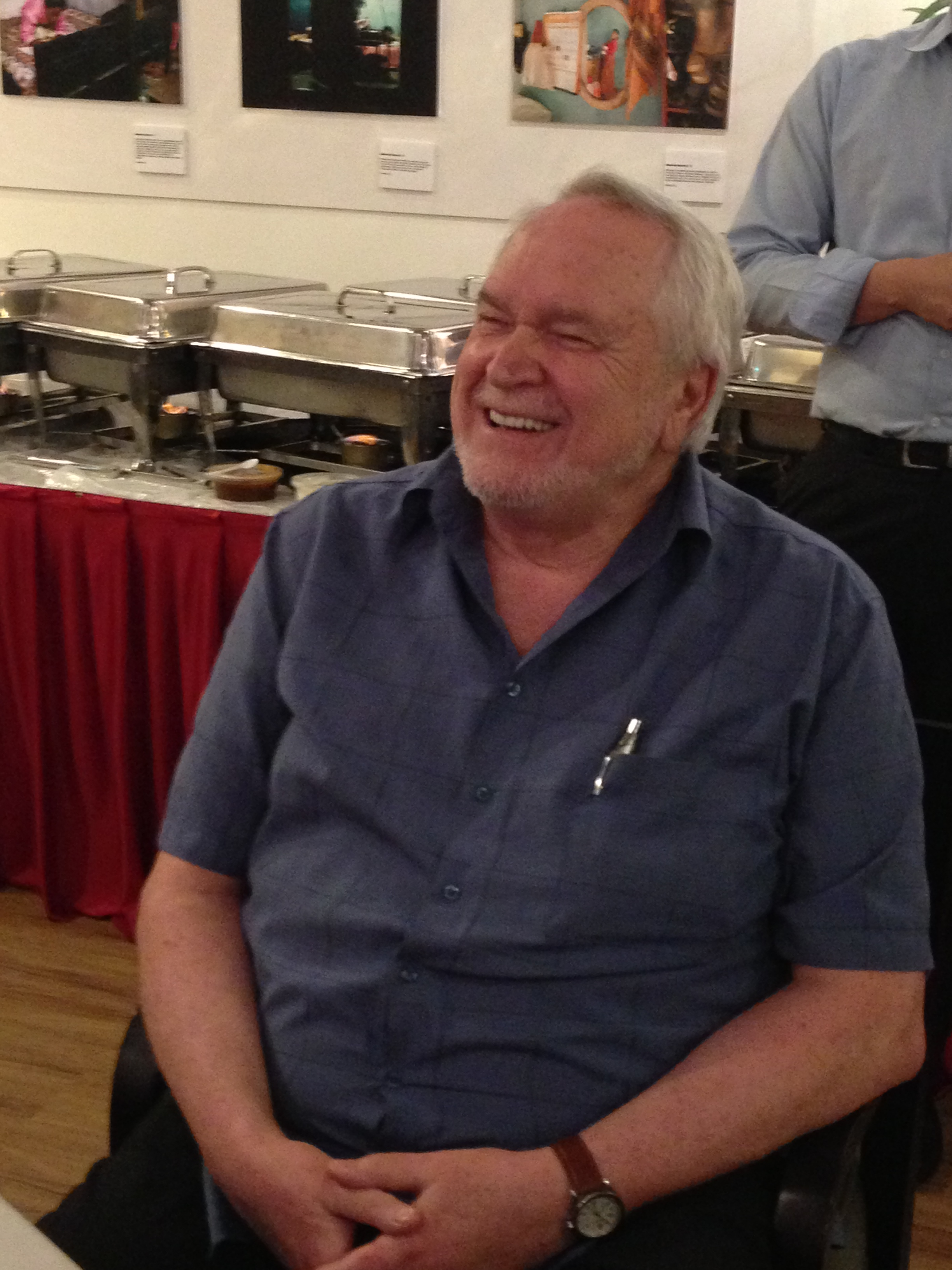 Edward Soja at the closing dinner of a workshop called Spatial Justice in Singapore held at Select Books, Singapore.